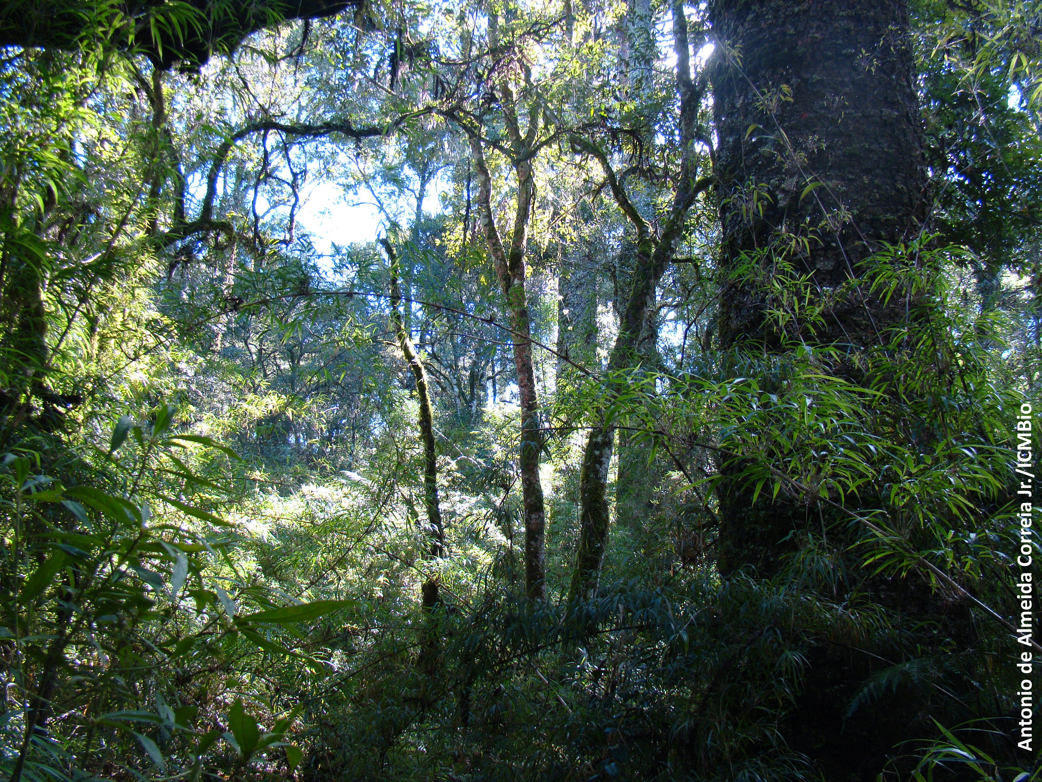 Floresta Ombrófila Mista.